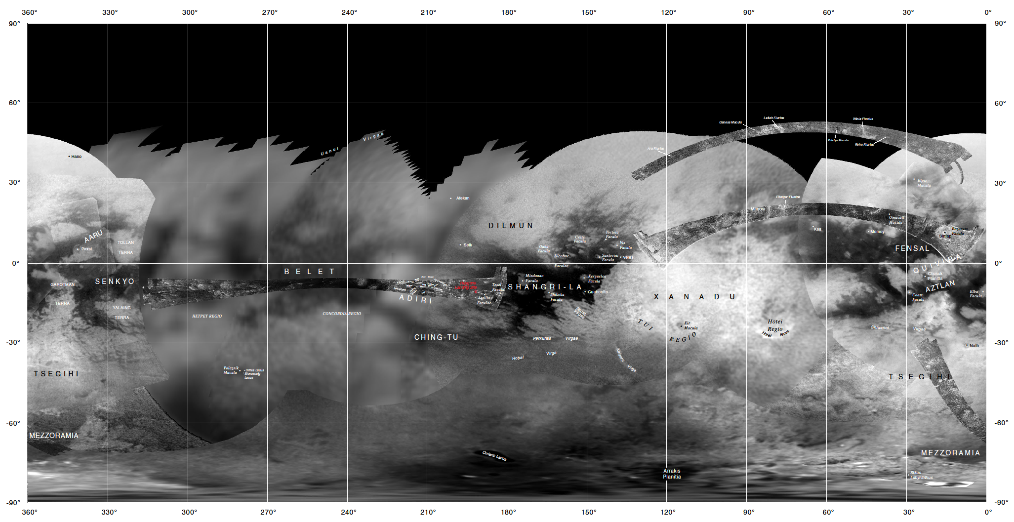 Xanadu area in Titan. In red, Huygens probe landing site.